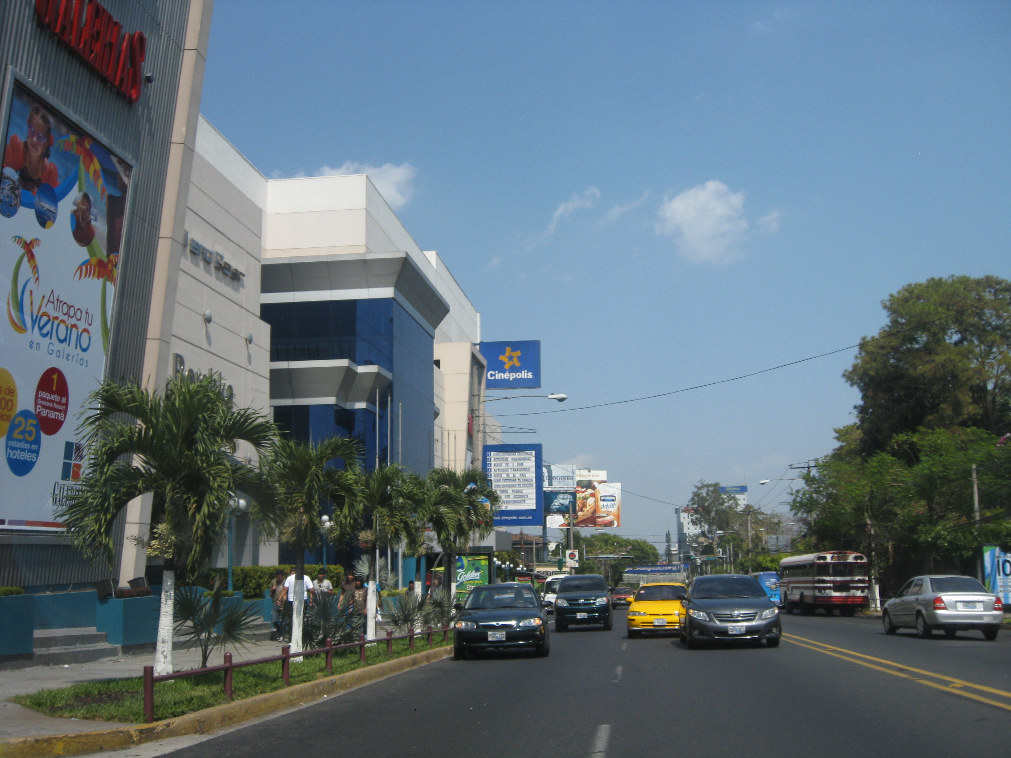 urban development at san salvador